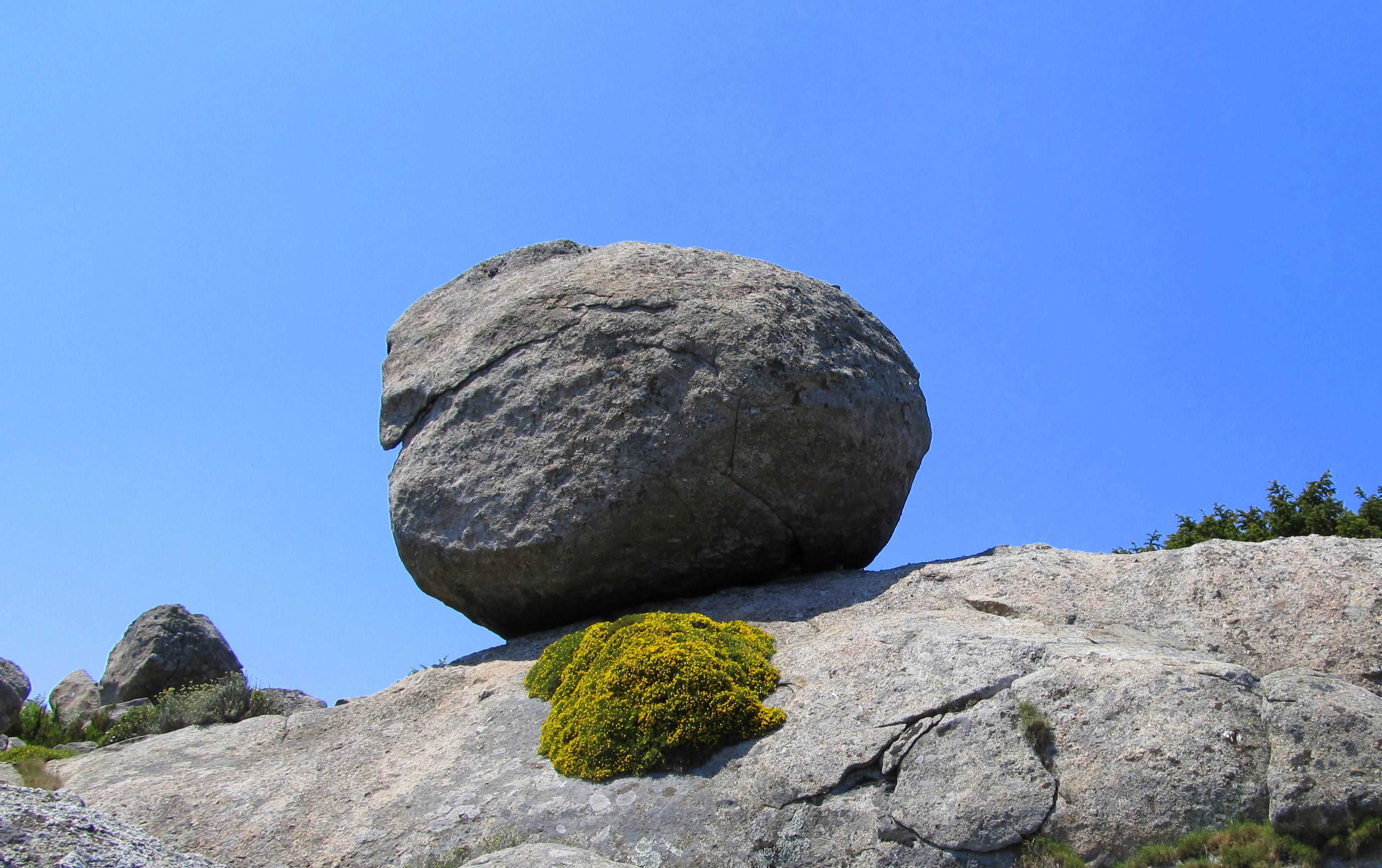 Elba Island